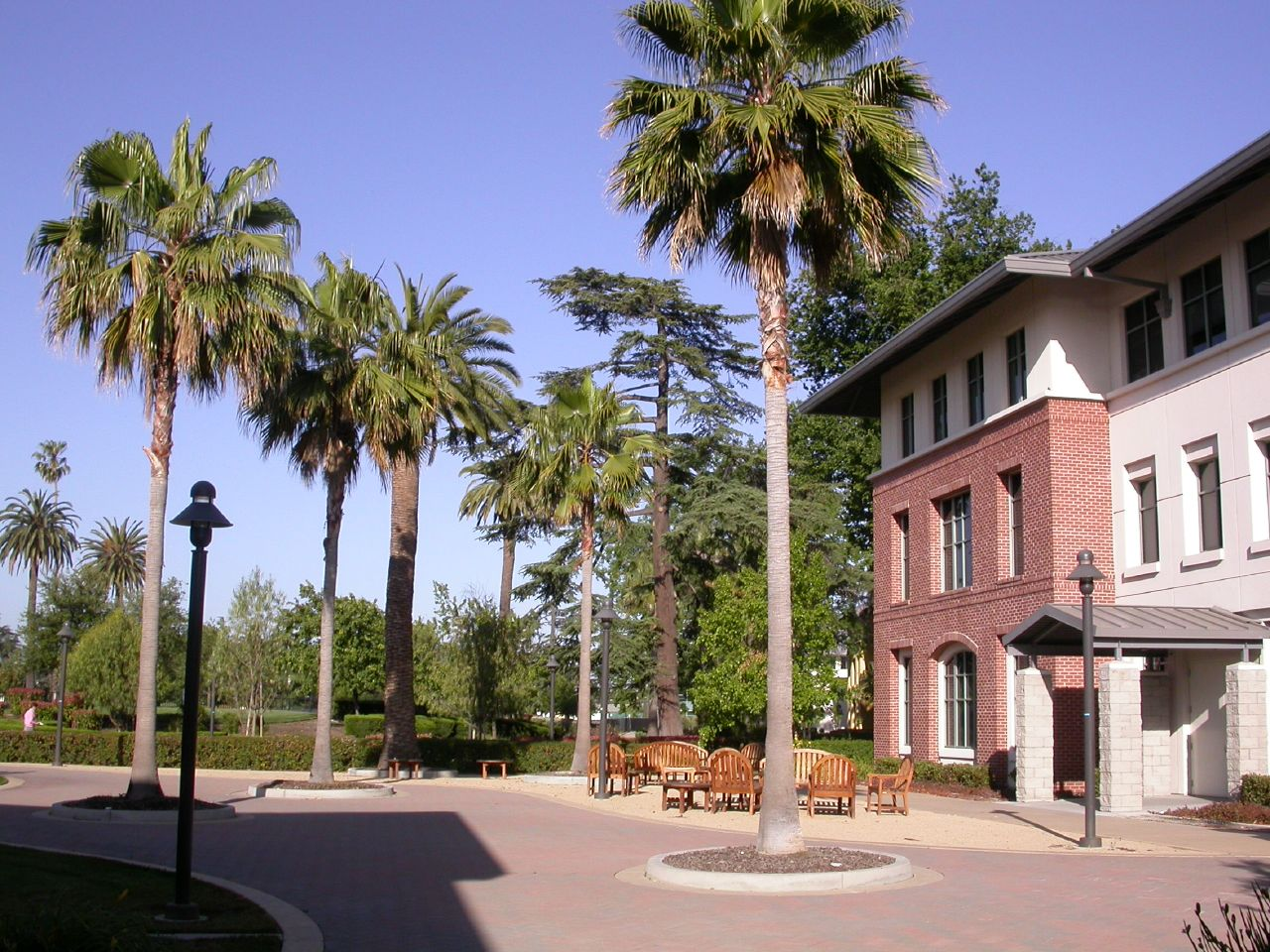 Santa Clara campus courtyard of Sun Microsystems, as seen in 2008.